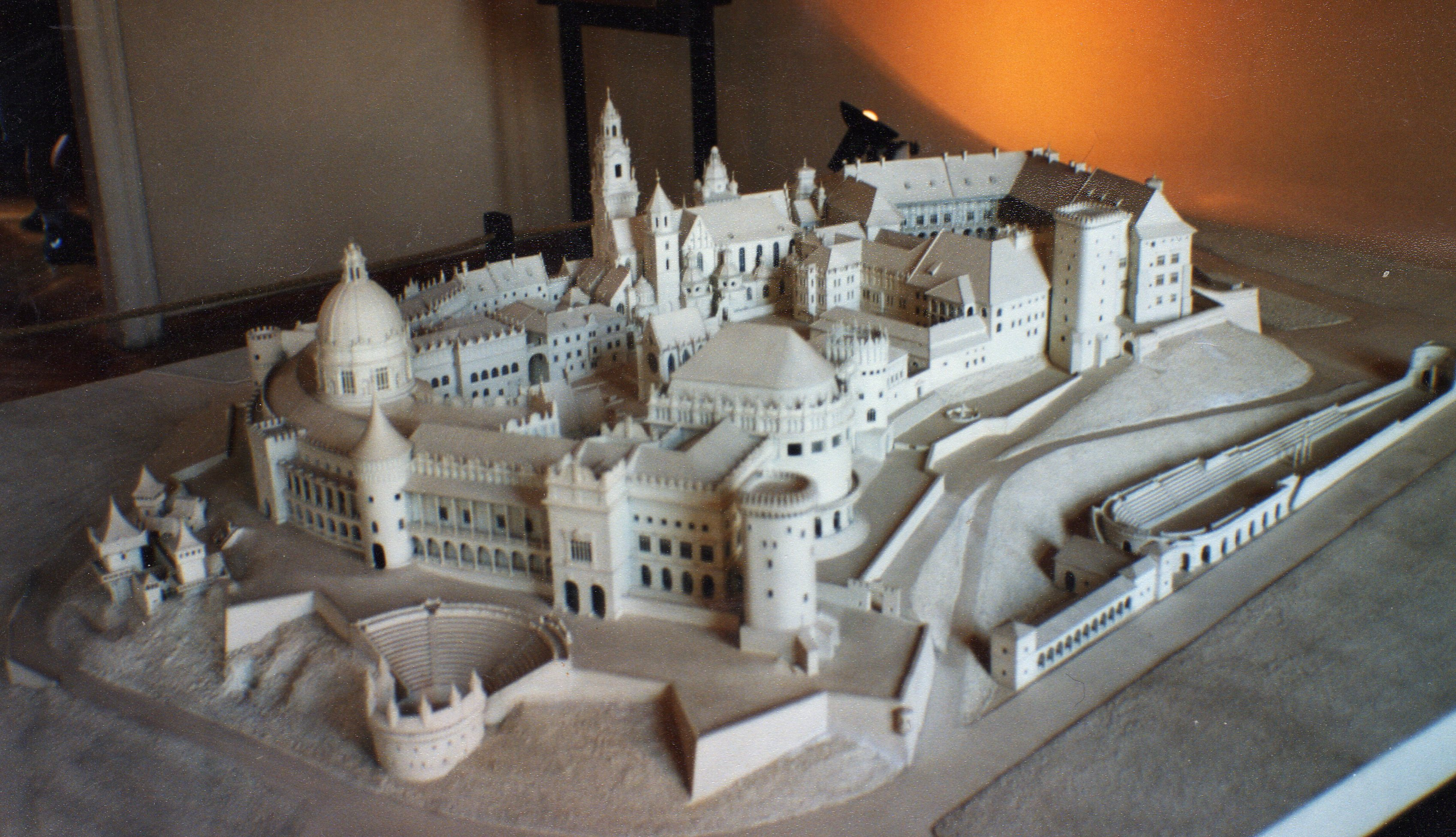 Stanisław Wyspiański: Concept of an "acropolis" for the Wawel hill, around 1904/05 with new, imposing architecture facing the Vistula river.